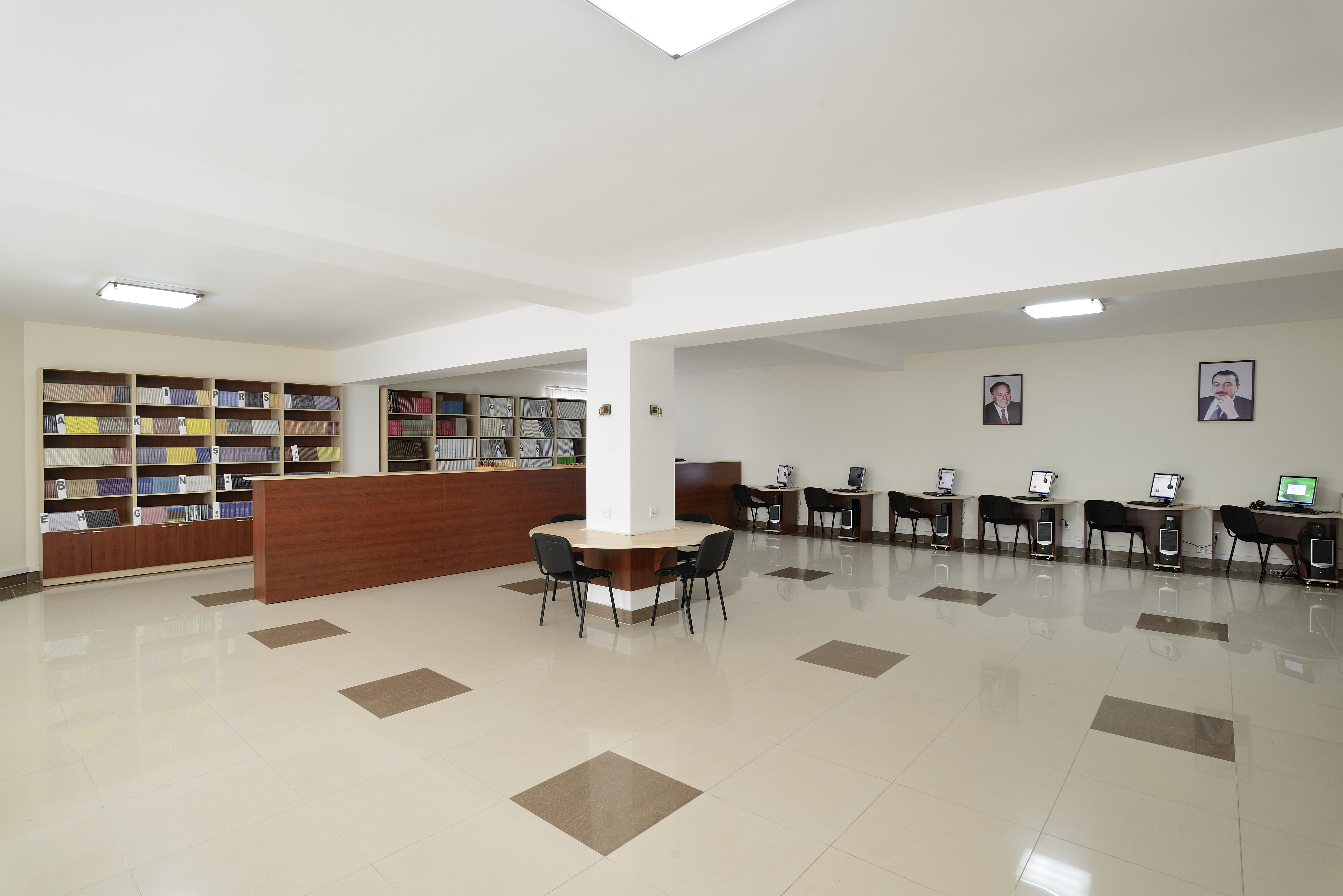 Məhdud Fiziki İmkanlı İnsanlar üçün Yevlax Regional İnformasiya Mərkəzi